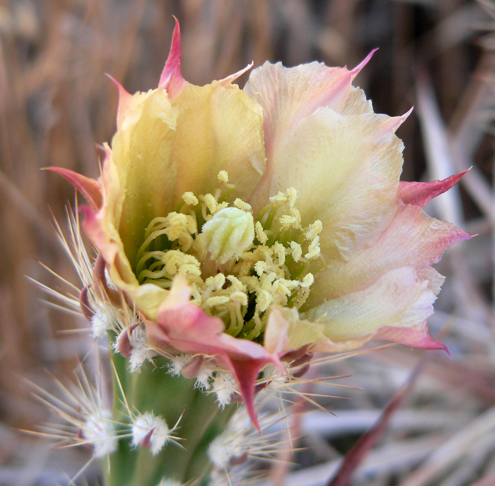 Grusonia parishii in Calico Basin, Spring Mountains, west of Las Vegas, Nevada